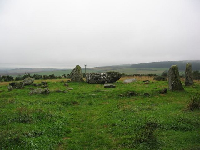 Aikey Brae Stone Circle for a brief description.